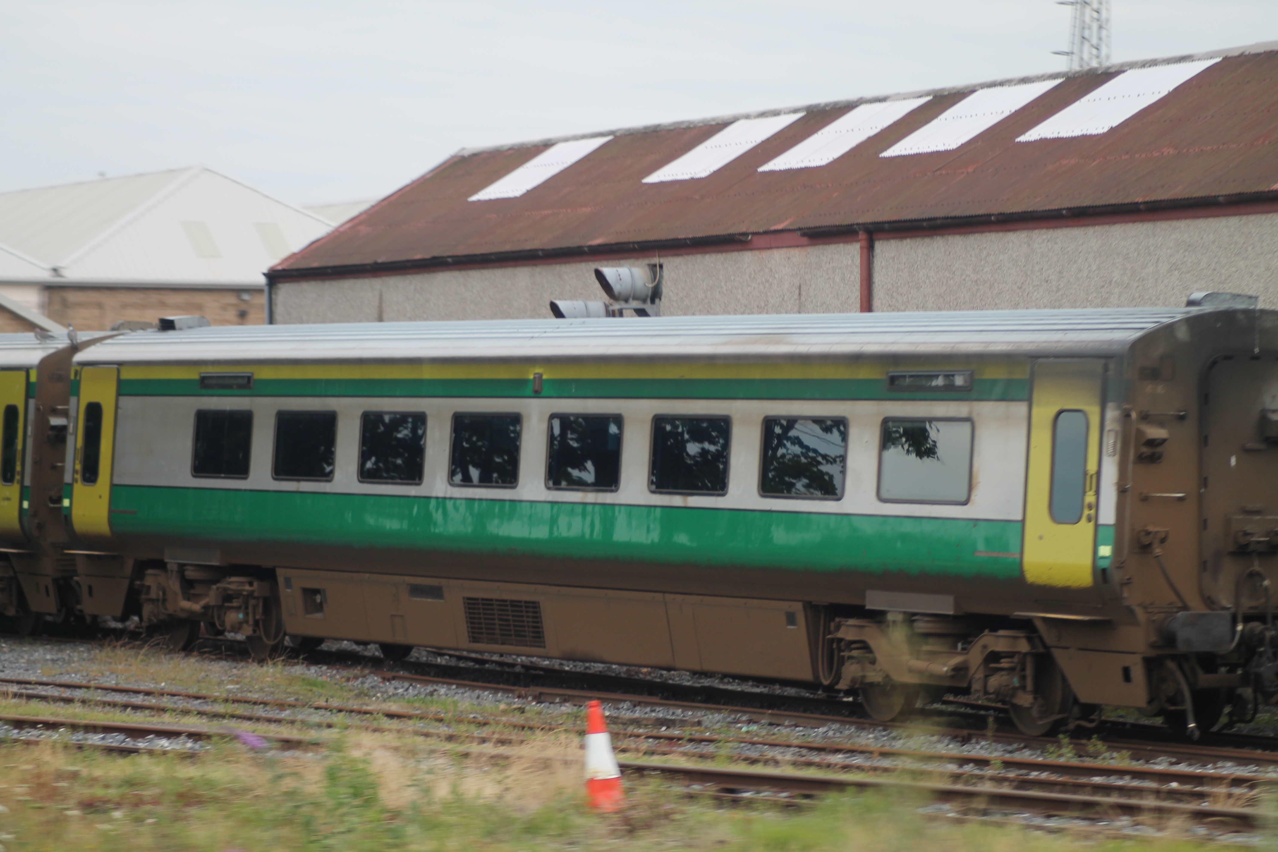 Irish Rail MkIV Standard Class End coach (SCE) 4110 at Inchicore works.